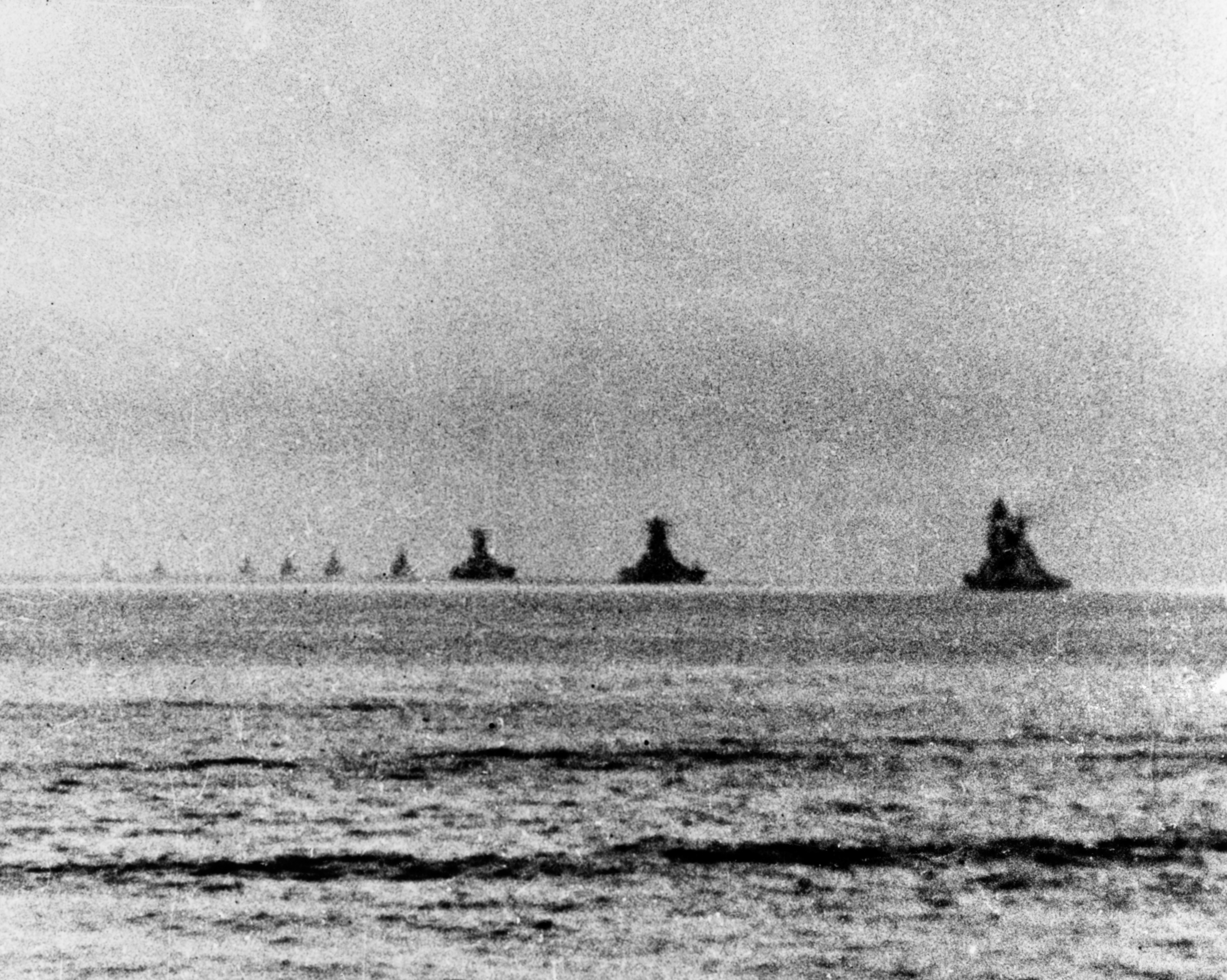 Battle of Leyte Gulf, October 1944: The Japanese "Center Force" leaves Brunei Bay, Borneo, on 22 October 1944, en route to the Philippines. Ships are, from right to left: battleships Nagato, Musashi and Yamato; heavy cruisers Maya, Chōkai, Takao, Atago, Haguro and Myōkō.